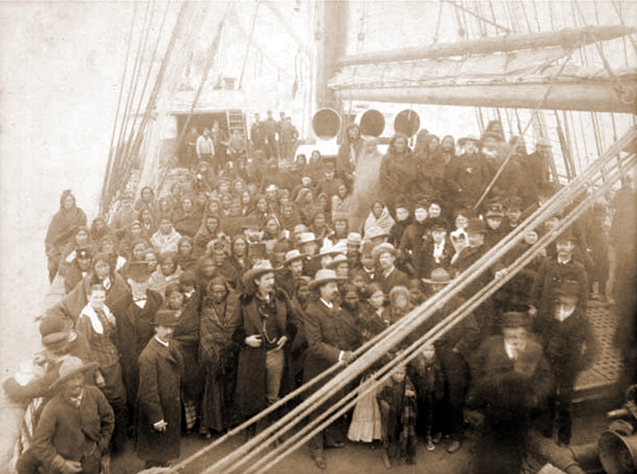 "Wild West Voyage from New York to London, 1887